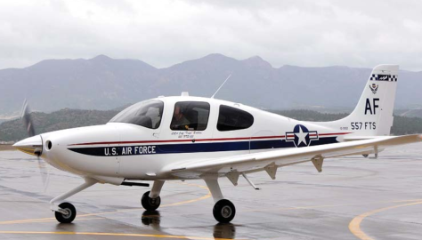 Lt. Col Jeff Bakken, 557th Flying Training Squadron commander, taxis the Air Force Acad- emy’s first T-53A trainer to a parking spot Monday [June 20, 2011]. The aircraft is the first of 25 new T-53As that will help prepare cadets to be Air Force pilots.